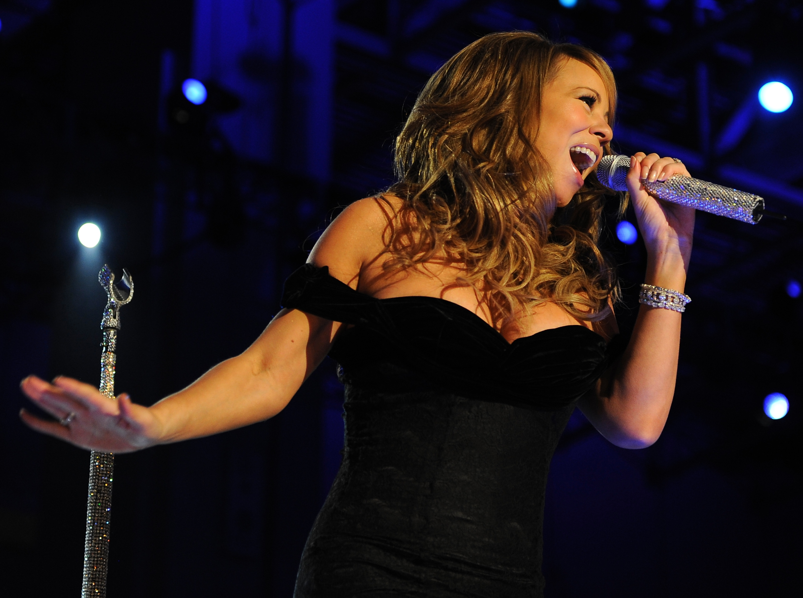 Mariah Carey sings at the Neighborhood Ball in downtown Washington, D.C., Jan. 20, 2009. More than 5,000 men and women in uniform are providing military ceremonial support to the presidential inauguration, a tradition dating back to George Washington's 1789 inauguration.